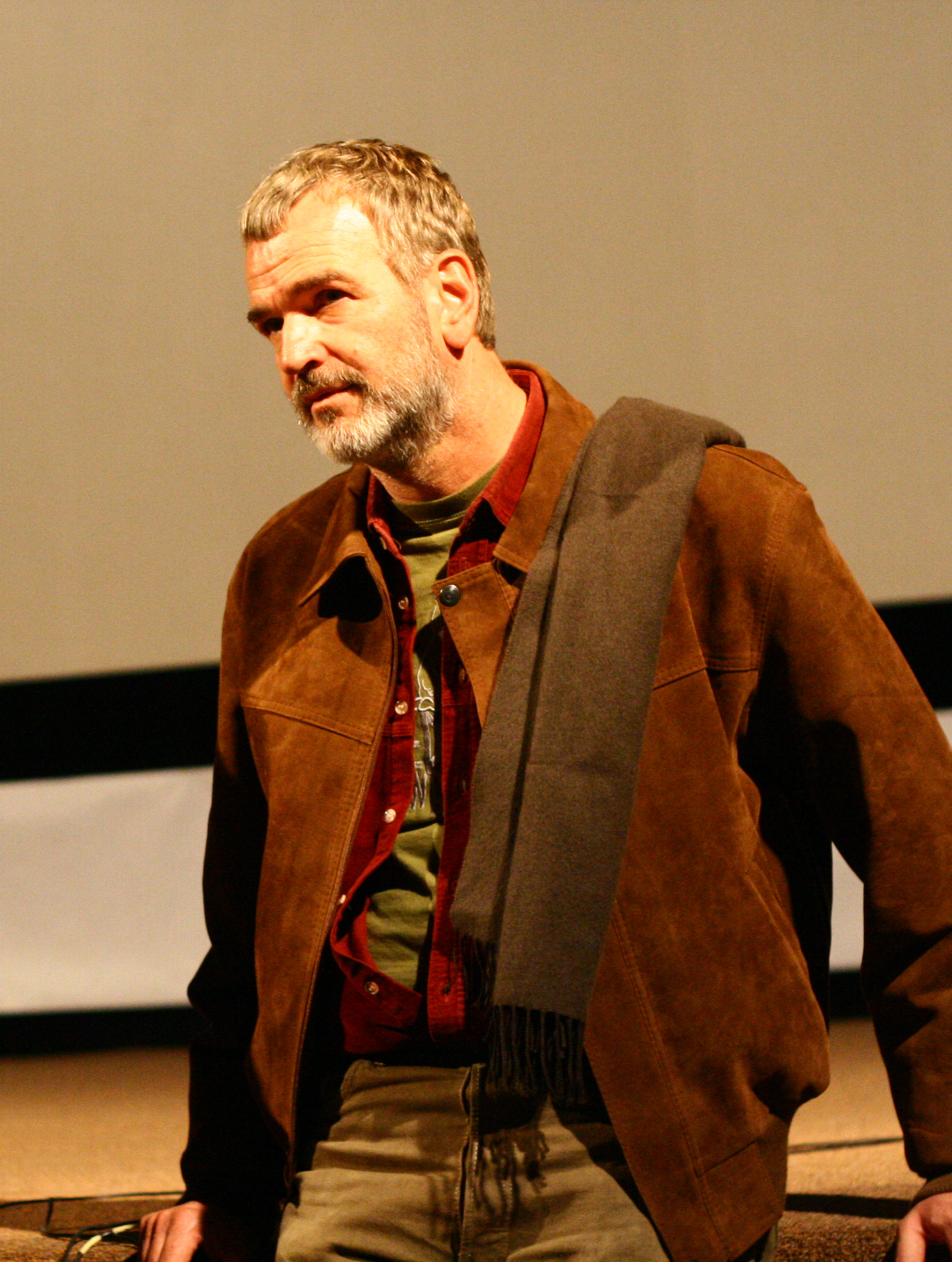 Wieland Speck during Q&A at Mezipatra gay & lesbian film festival 2006 at Kino Světozor, Prague, Czech Republic.